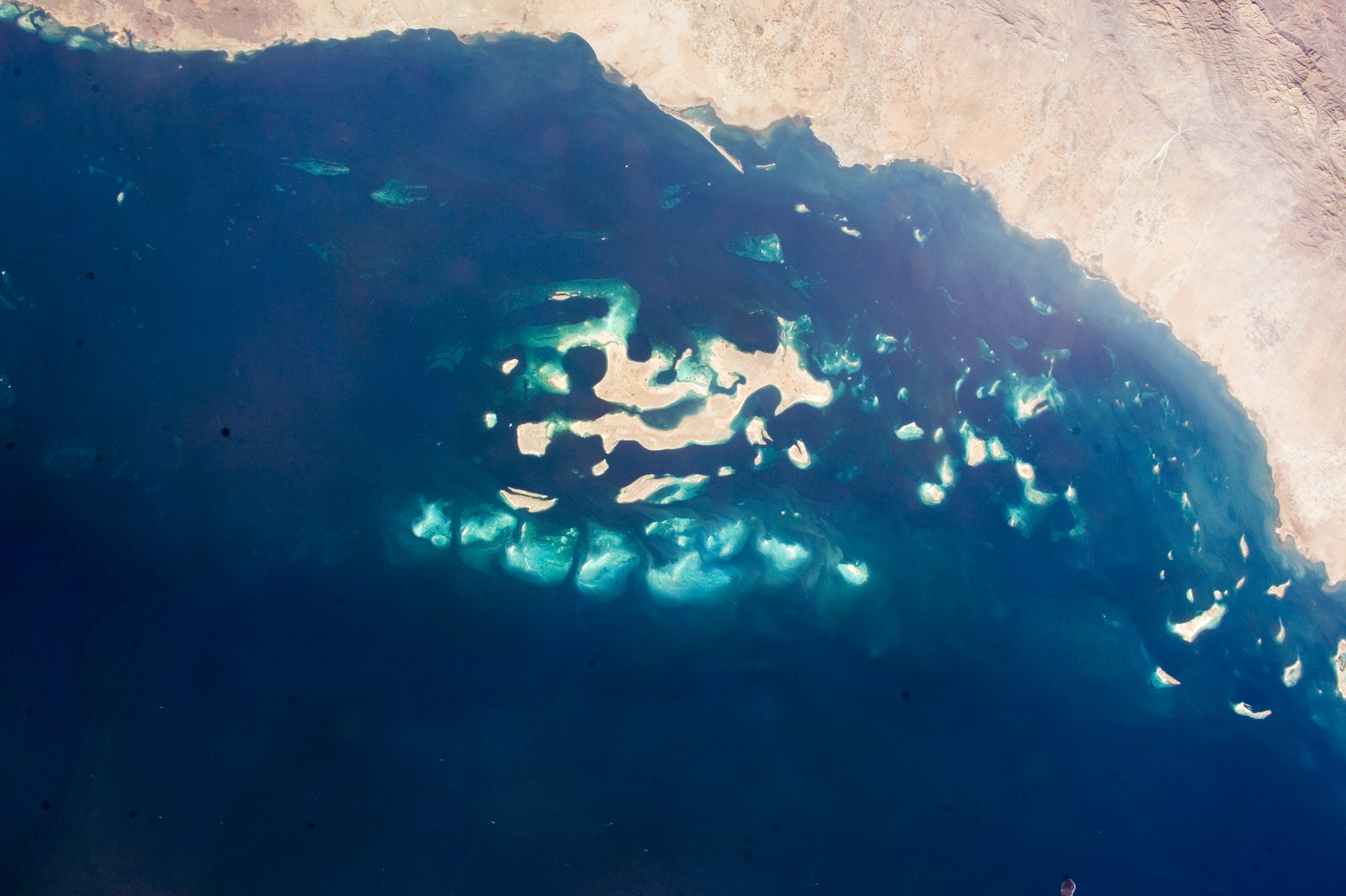 Twitter image from US Astronaut Terry Virts of the Red Sea in the Middle East on Feb. 09, 2015. Terry labeled it "earth art." Terry is a flight engineer of Expedition 42 on the International Space Station.